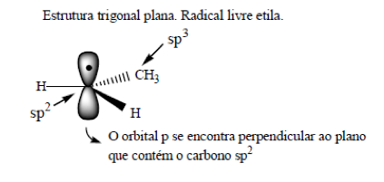 dsgfsadsa